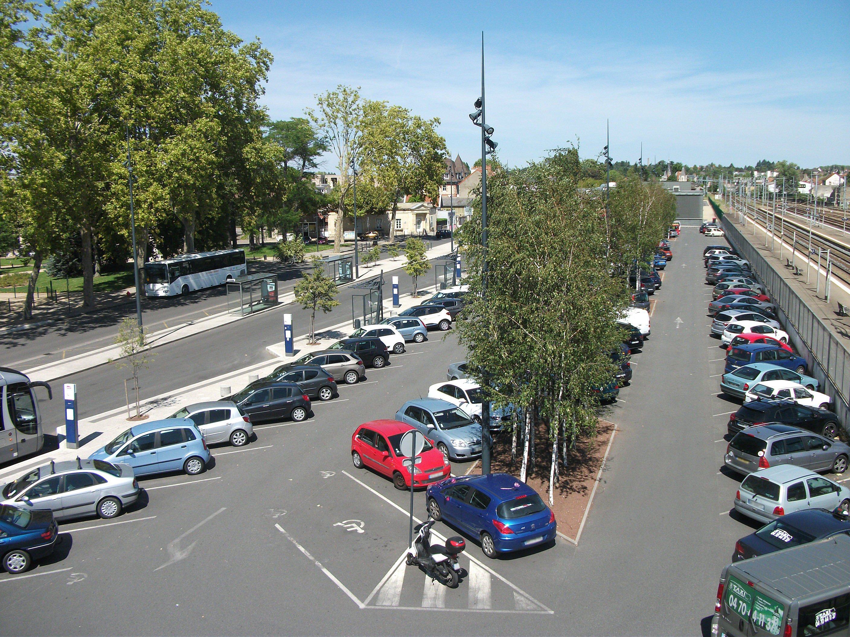 Parking of Moulins-sur-Allier railway station, view to the north from footbridge, Moulins side [8847]